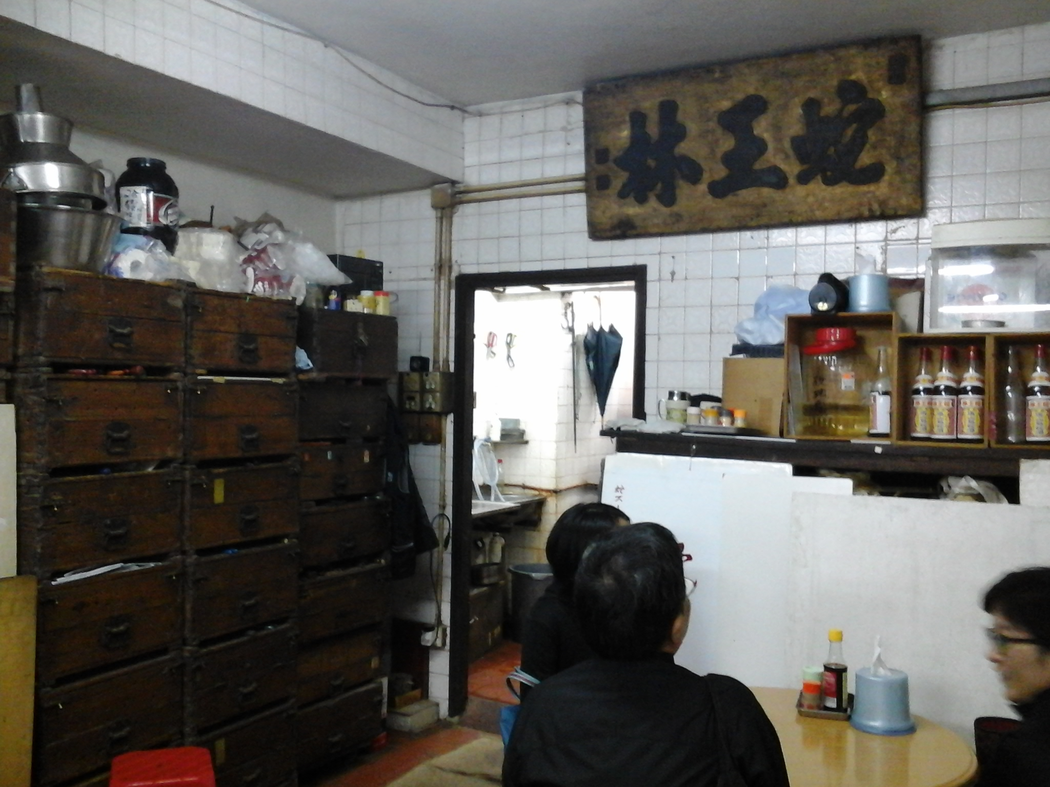 Snake emporium in Sheung Wan, Hong Kong; diners awaiting; wooden crates of "poisonous snakes" on the left